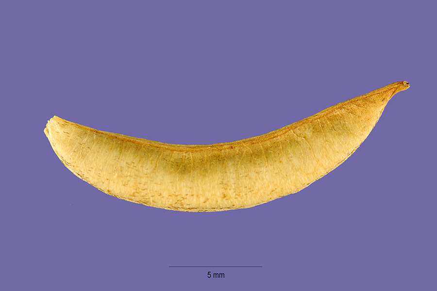 Pod of Astragalus robbinsii from Tracey Slotta. Provided by ARS Systematic Botany and Mycology Laboratory. United Kingdom, Scotland, Edinburgh.